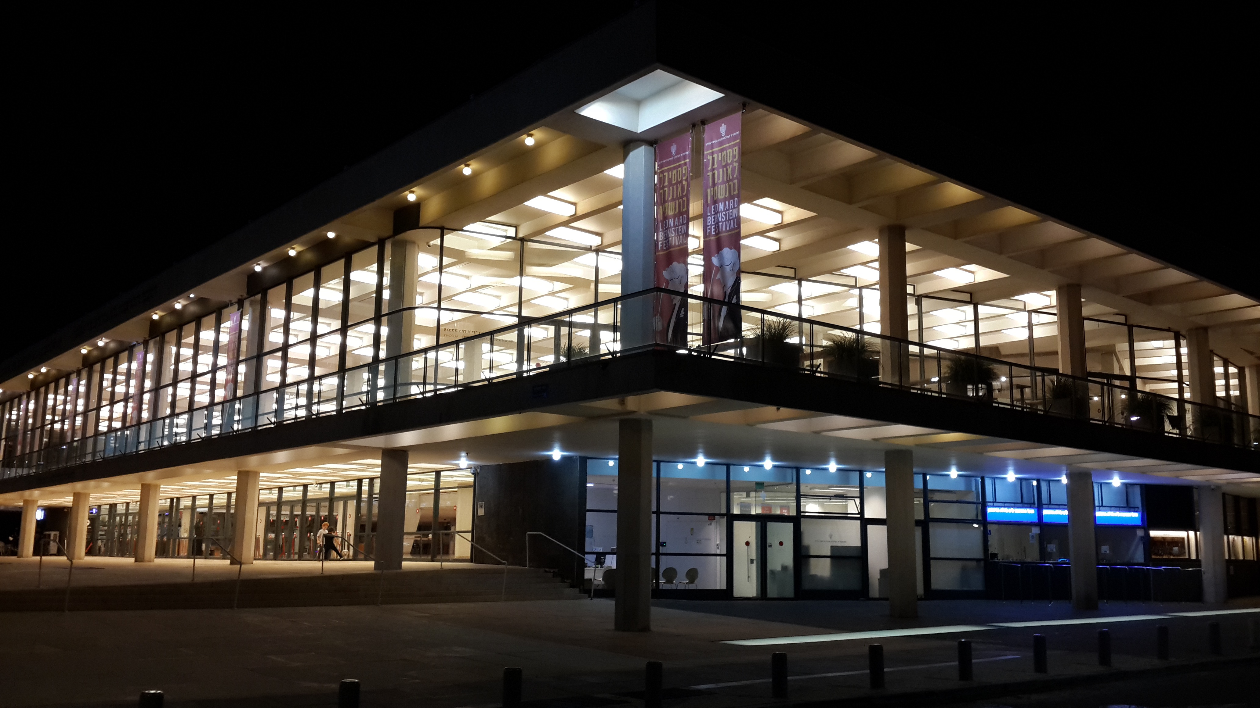 Israel Philharmonic Orchestra-Bernstein Festival at Charles Bronfman Auditorium